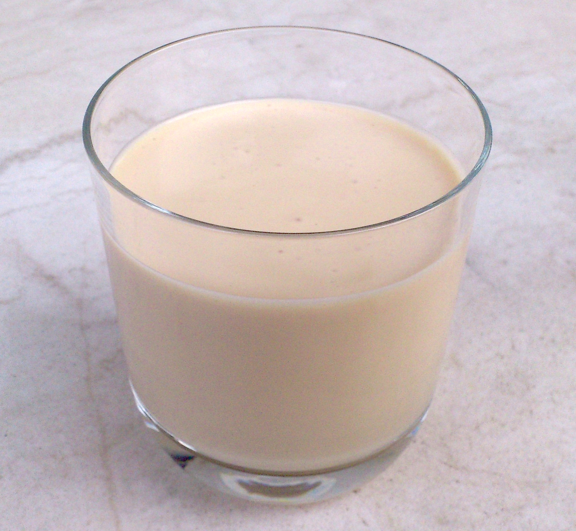 Ryazhenka